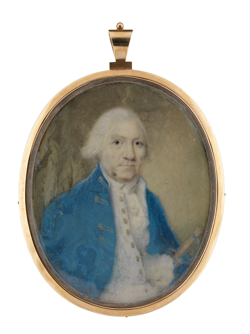 c. 1787 portrait of Rear Admiral Edmund Affleck.